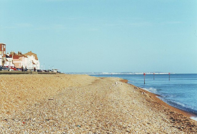 The beach at Deal, Kent